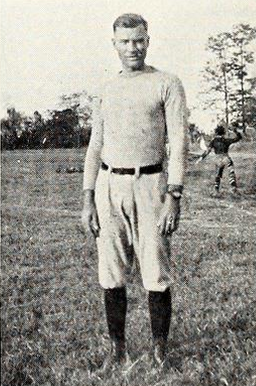 Fred G Holtkamp